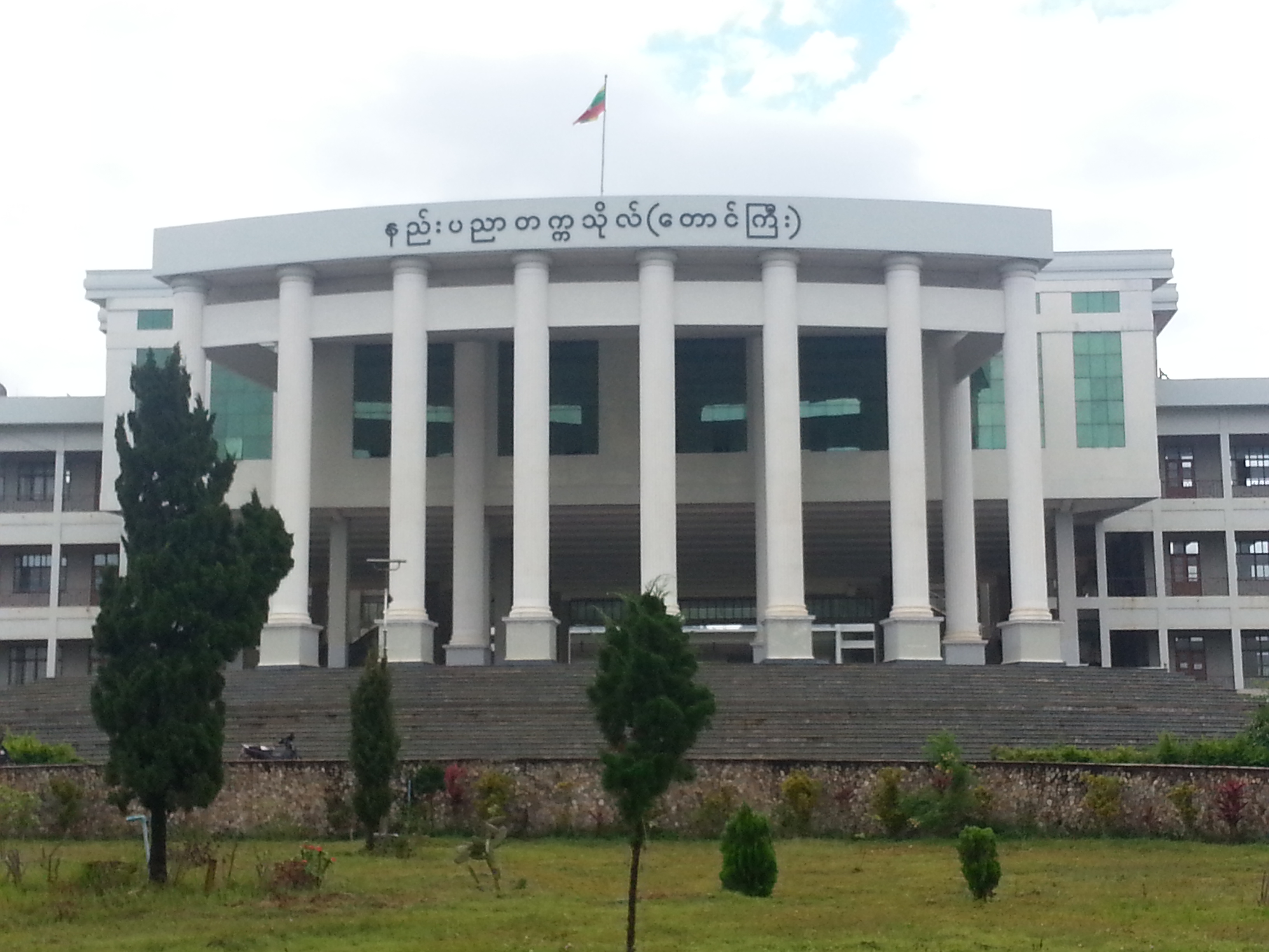 Technological University Taunggyi မြန်မာဘာသာ: နည်းပညာတက္ကသိုလ် (တောင်ကြီး)